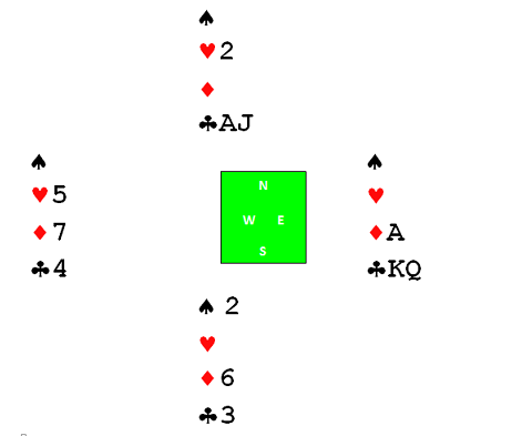 A Pseudo Automatic Squeeze in bridge